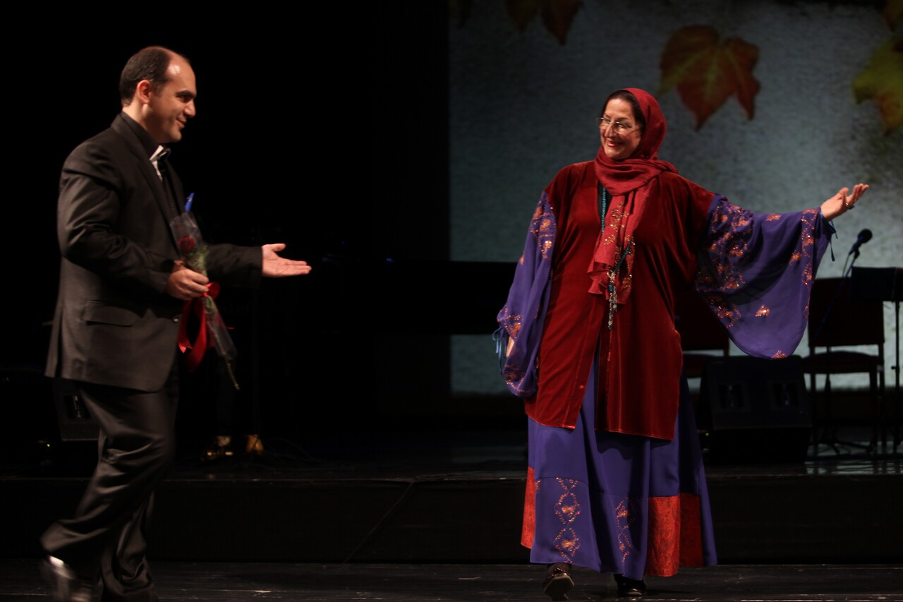 Chamber ensembles, KHONYA Musical Group along with Bardia Sadrenoori As Pianist at "20 Years Of KHONYA Concert" in Vahdat Hall Tehran